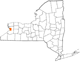 Map highlighting the location of Buffalo, New York.